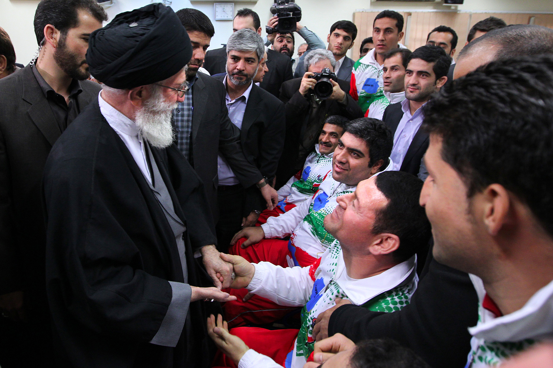 Ayatollah Ali Khamenei Supreme Leader of Islamic Republic of Iran Meeting pioneers, educators and World Championships and Olympic medalists